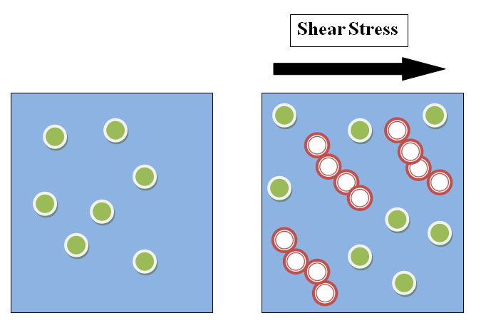 Hydroclustering